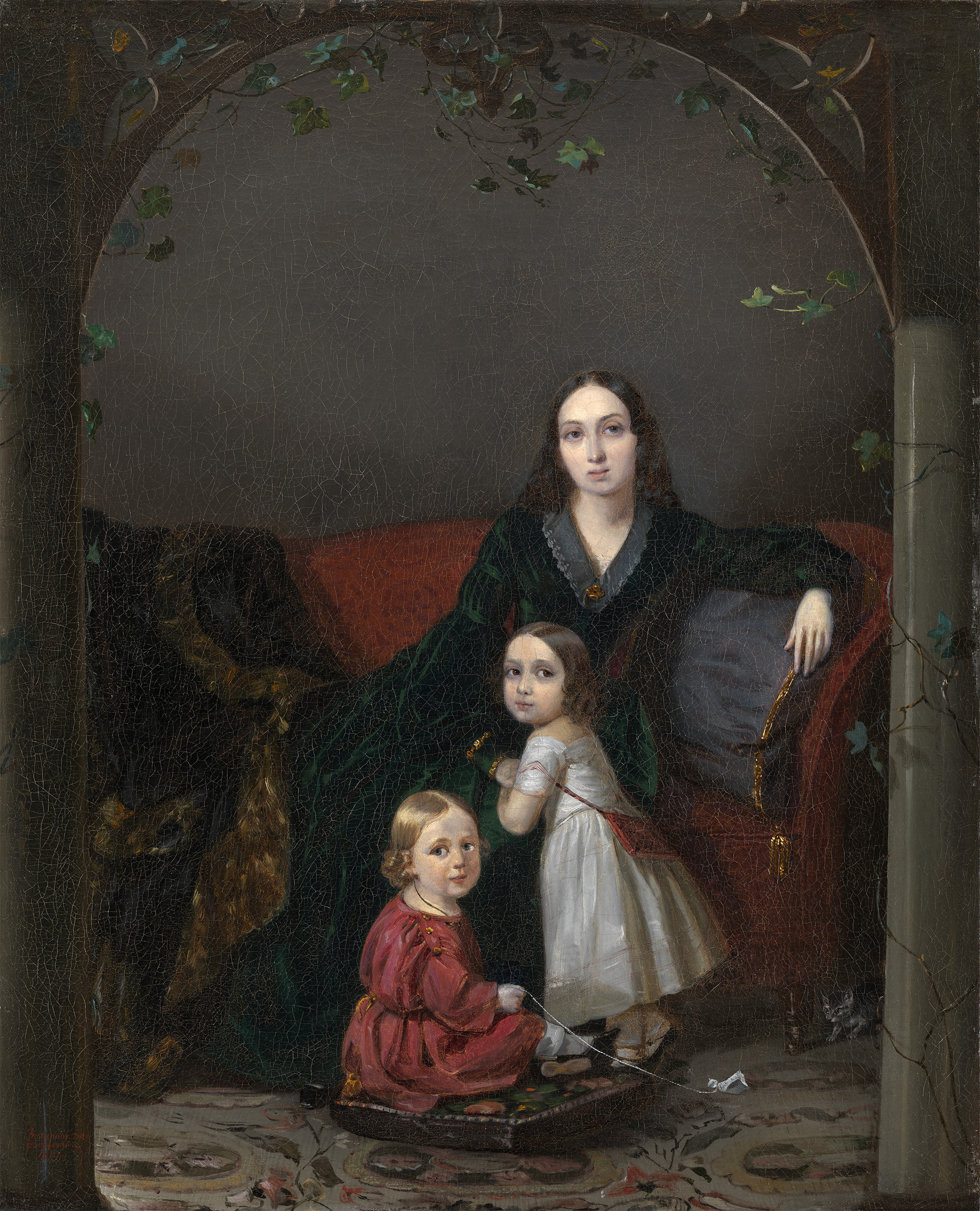 ZAKHAROV, PETR (1816-1846) Portrait of Anna Grigorievna Ermolova (1807—1852), née Obolonskaya, with Her Children, signed "Zakharov.Da=/dayurtskii.-" and dated "18 IV/X 40". ZAKHAROV, PETR (1816-1846) Portrait of Anna Grigorievna Ermolova with Her Children, signed "Zakharov.Da=/dayurtskii.-" and dated "18 IV/X 40". 350,000–500,000 GBP Provenance: Collection of Ya.M. Shapiro, Moscow. Private collection, Europe. Authenticity of the work has been confirmed by the experts L. Markina and I. Lomize. Exhibited: Vystavka P.Z. Zakharova-Chechentsa, Museum of V.A. Tropinin, Moscow, December 1986 - June 1987 (label on the stretcher). Literature: N. Shabanyants, “Poiski i nakhodki. Taina zagadochnykh bukv”, Groznenskiy rabochiy, No. 266, 19 November 1978, illustrated and mentione T. Mazaeva, The Artist Petr Zakharov (Chechenets), PhD thesis, Leningrad, 1982, pp. 334–335, illustrated. L. Markina, “Raboty khudozhnika Petra Zakharova v sobranii Tretyakovskoi galerei”, The Tretyakov Gallery Magazine, No. 3, 2011, p. 90, illustrated. Related Literature: N. Shabanyants, Akademik zhivopisi P.Z. Zakharov, Grozny, 1974, the work is mentioned on p. 16. Portraits of members of the family of General Petr Ermolov occupy a special place in the oeuvre of the remarkable 19th century artist Petr Zakharov. His work has long been dispersed among the major museum collections – the Hermitage, the Russian Museum, the Tretyakov Gallery, the Tropinin Museum and others – but is ex- tremely rarely encountered in private collections. Accordingly, the appearance on the market of this portrait of Anna Grigorievna Ermolova, which comes from the famous Moscow collector Yan Moiseevich Shapiro, may be regarded as a unique phenomenon.